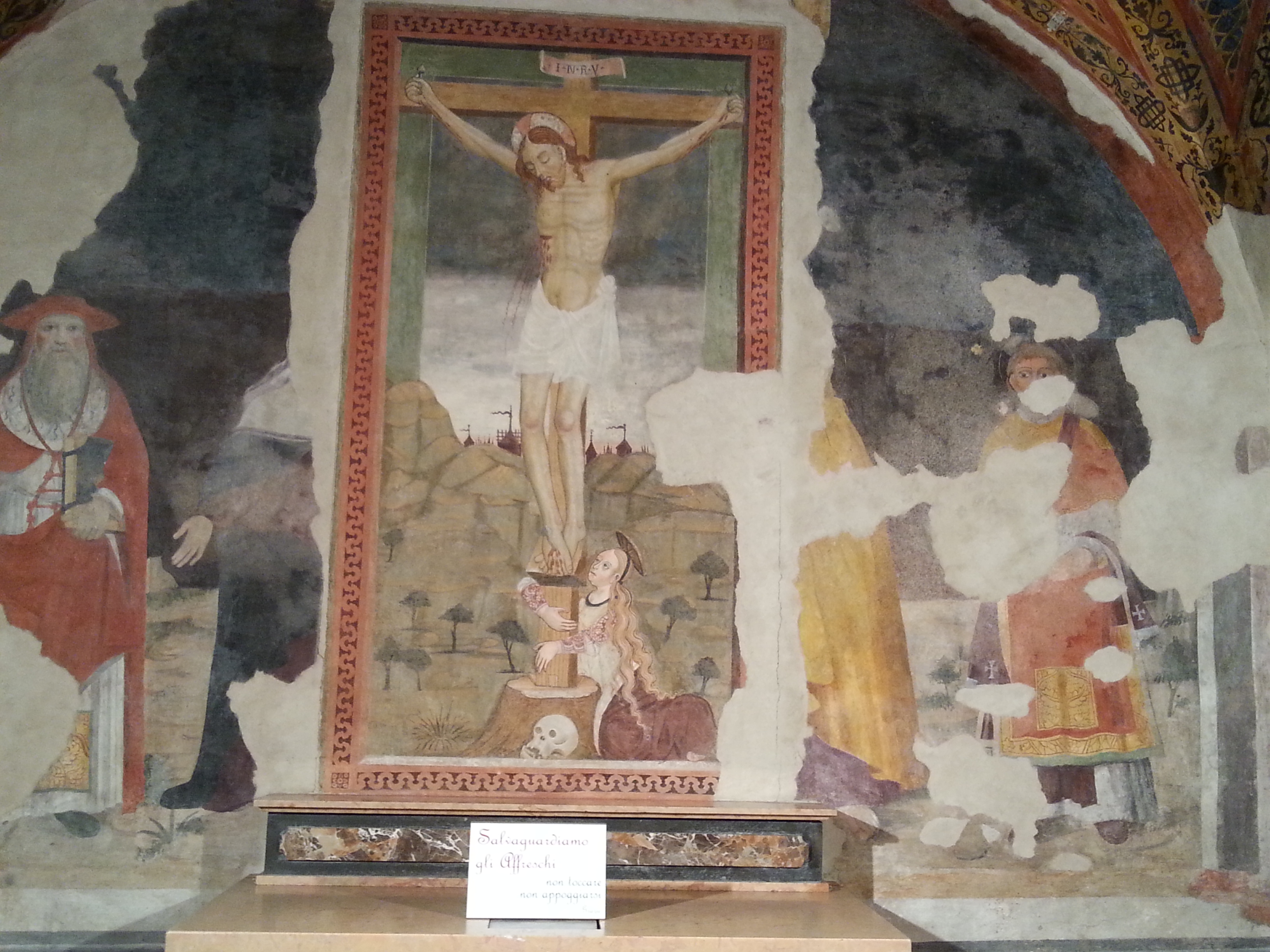 Guglielmo da Montegrino - Crucifixion with the Magdalene - Sanctuary of the Madonna del Carmine - Luino (Italy)